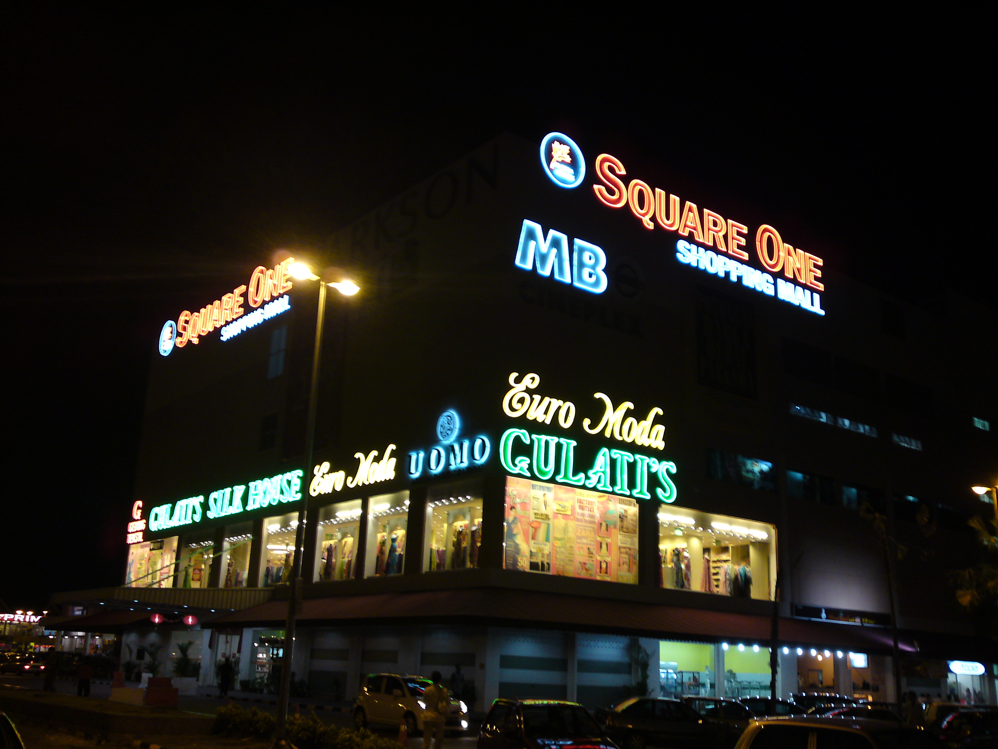 square one mal